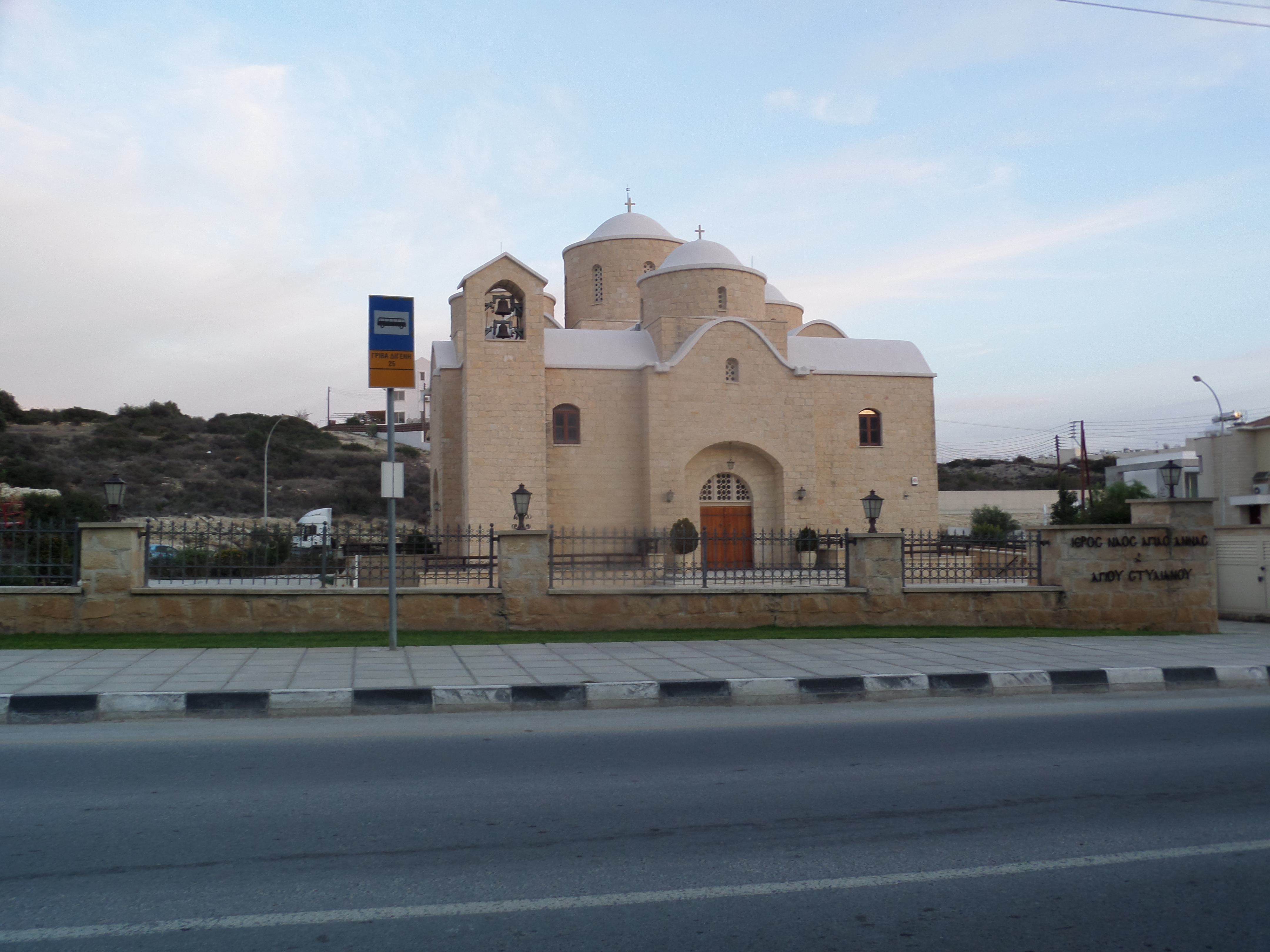 Church of Saint Annas and Saint Stylianos at Ayios Tychonas